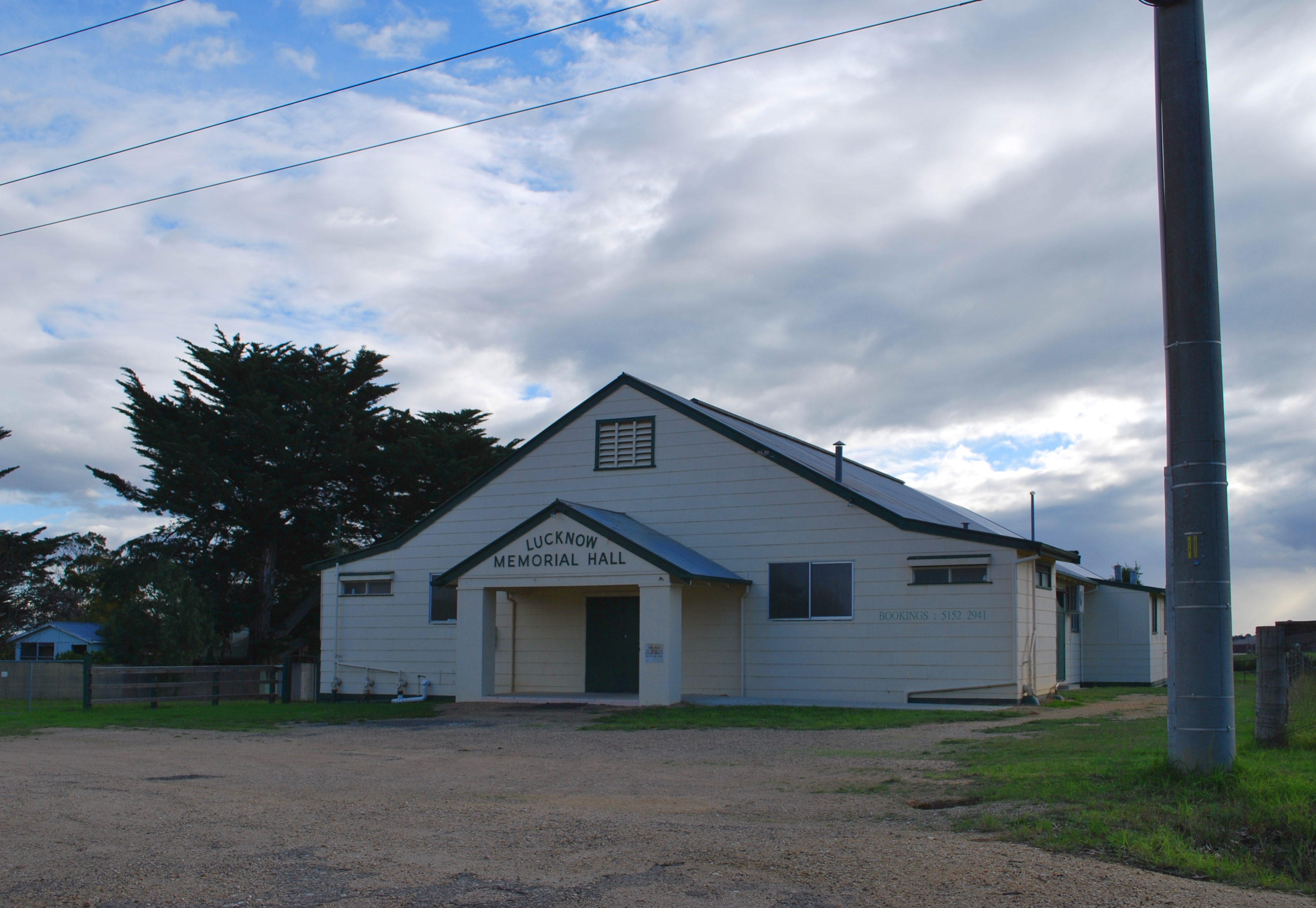 Memorial Hall at Lucknow, Victoria, near Bairnsdale, Victoria